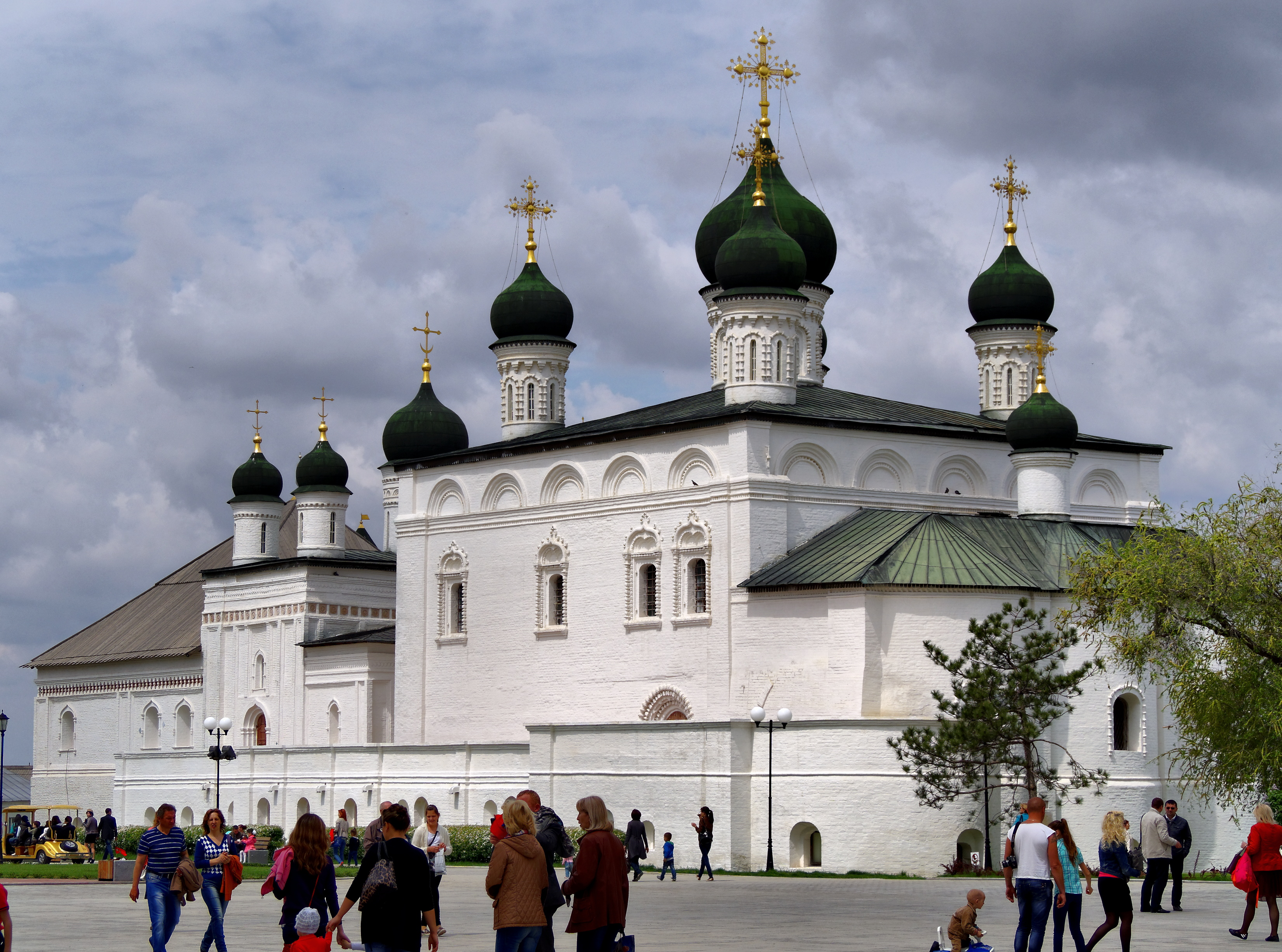 Astrakhan. Kremlin. Trinity Cathedral with the churches of the Presentation of the Lord and the Introduction in Virgin Mary Church